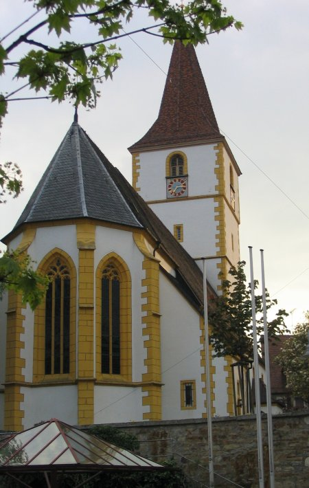 Mauritius Church "Mauritius Kirche" in Holzgerlingen, Boeblingen County, Baden-Wuerttemberg, Germany.